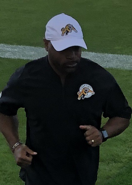 Mark Washington, assistant coach for the Hamilton Tiger-Cats.